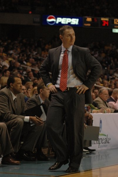 Donnie Jones coaching Marshall University against West Virginia University in the 2008 Capital Classic.